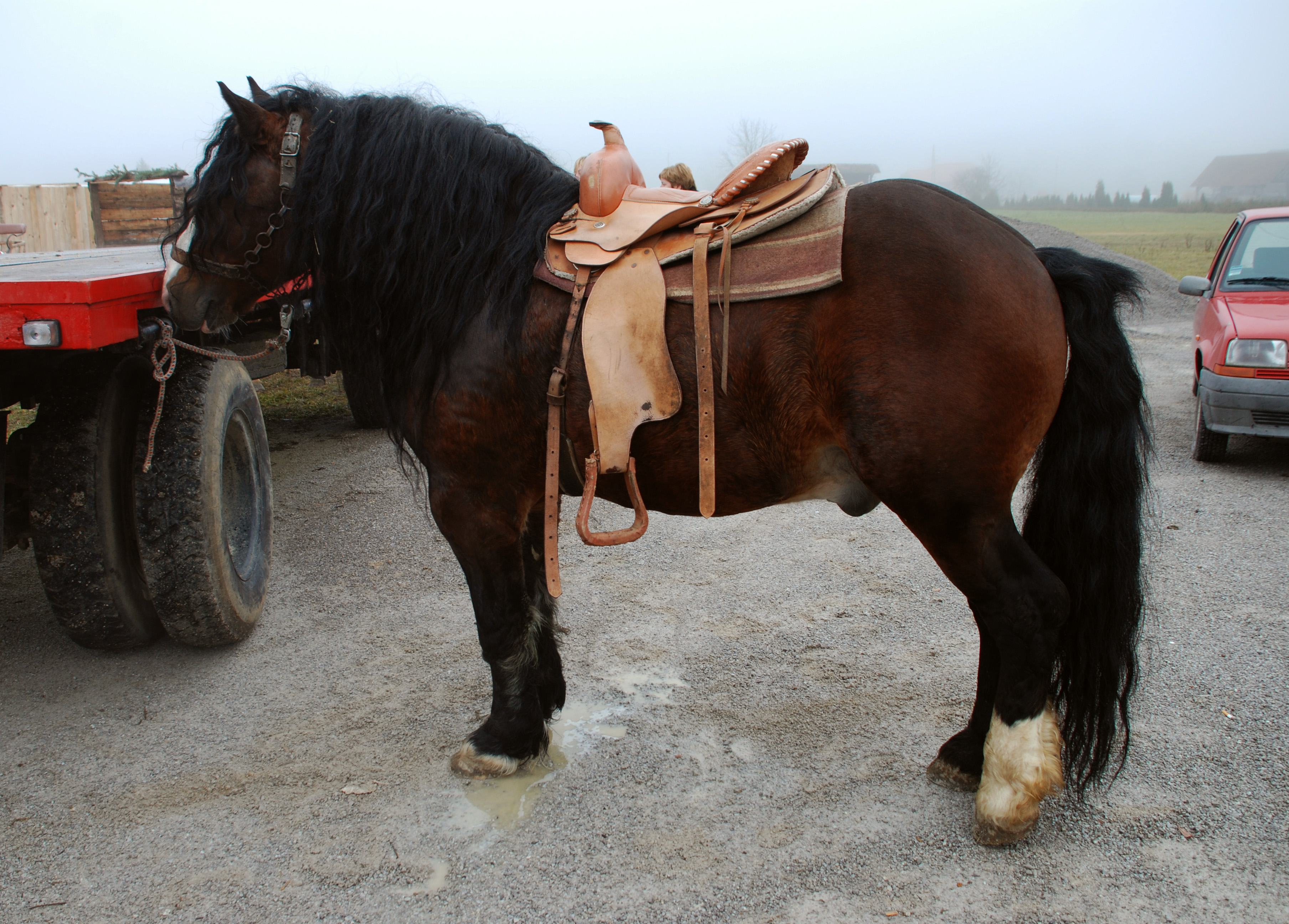 The posavec horse breed (a stallion). The photography was taken in Šentrupert, Slovenia, on 26 December 2009 (St. Stephen's Day). The Posavec horse breed formed in the basin of the Sava river (in Slovenia particularly along the lower part of the Sava) from the autochthonous horses of the area interbred with various cold bloods.